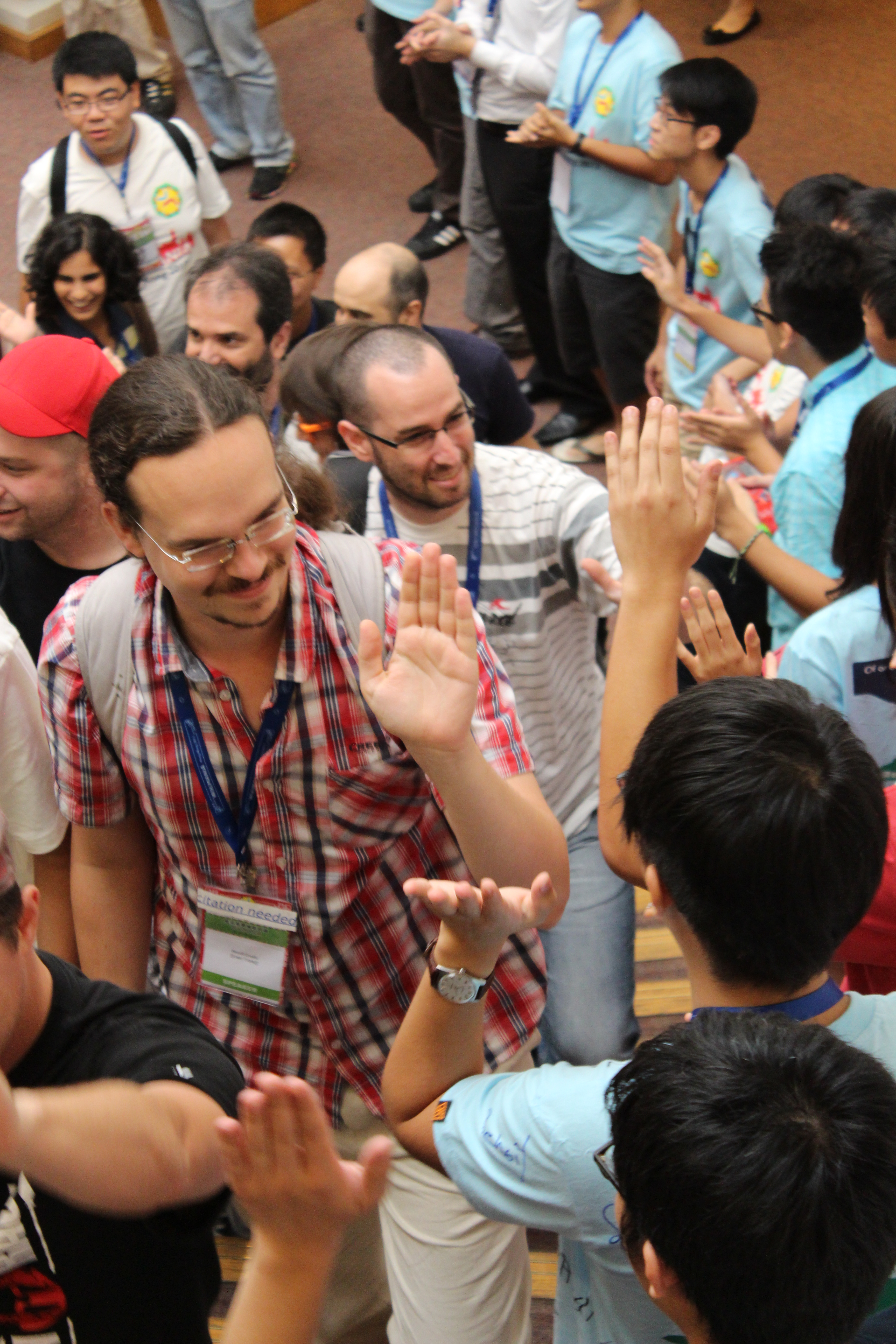 Wikimania 2013 closing ceremony, Hong Kong